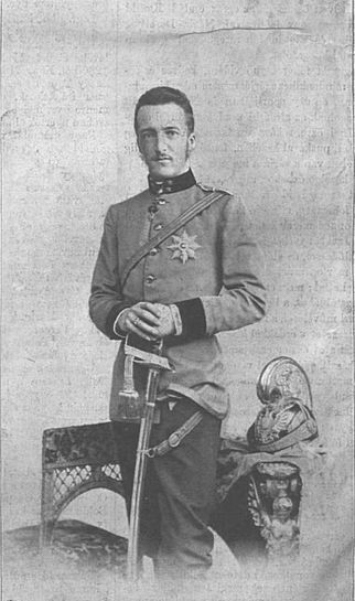 Archduke Joseph August of Austria